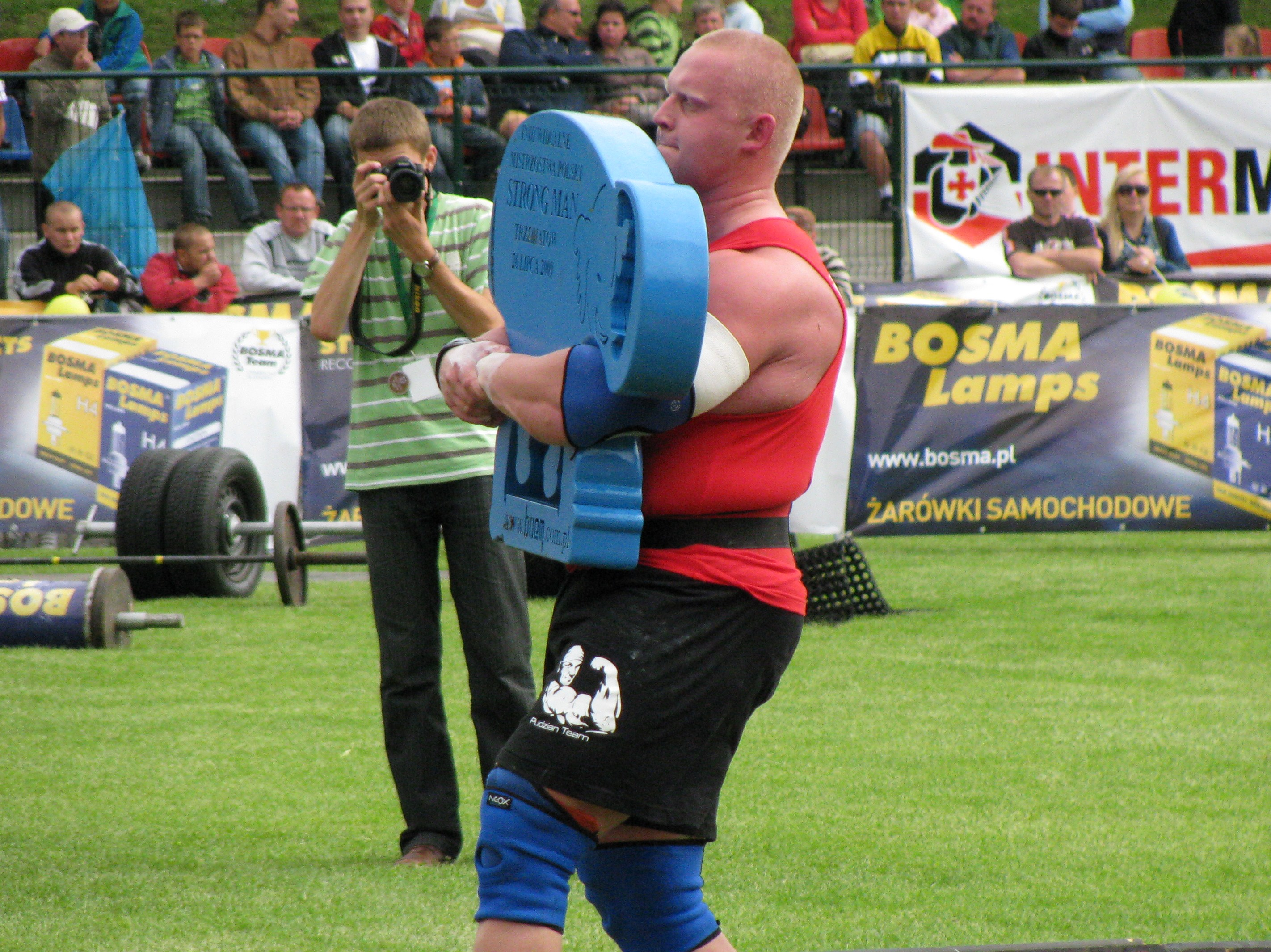 Rafal Kobylarz - a strength athlete from Poland.